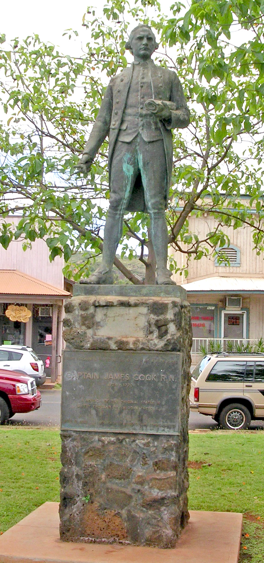 Statue of James Cook (by John Tweed (original on Whitby, England)) at the town of Waimea, Kauai, honoring his first contact with the Hawaiian islands at the Waimea Harbor on January 1778 with his ships Resolution and Discovery. Photo by Alejandro Bárcenas (2006)